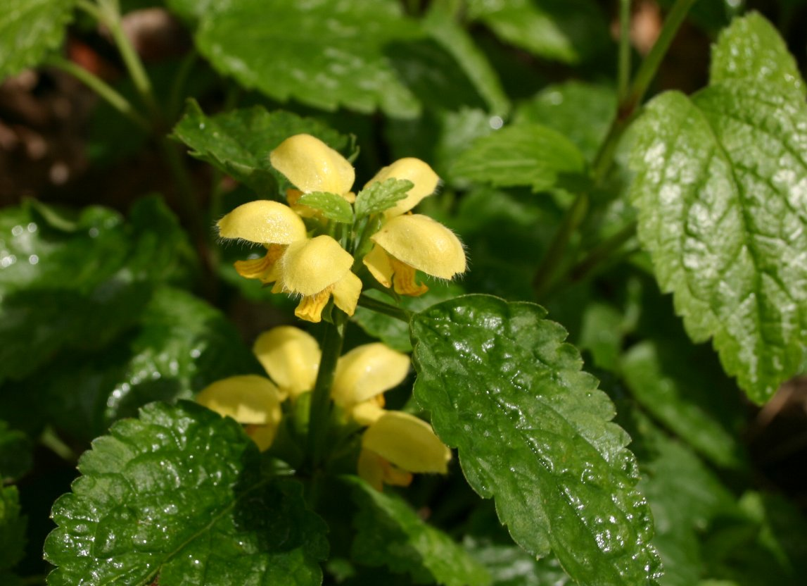 Lamiastrum galeobdolon: Flowers and leaves.